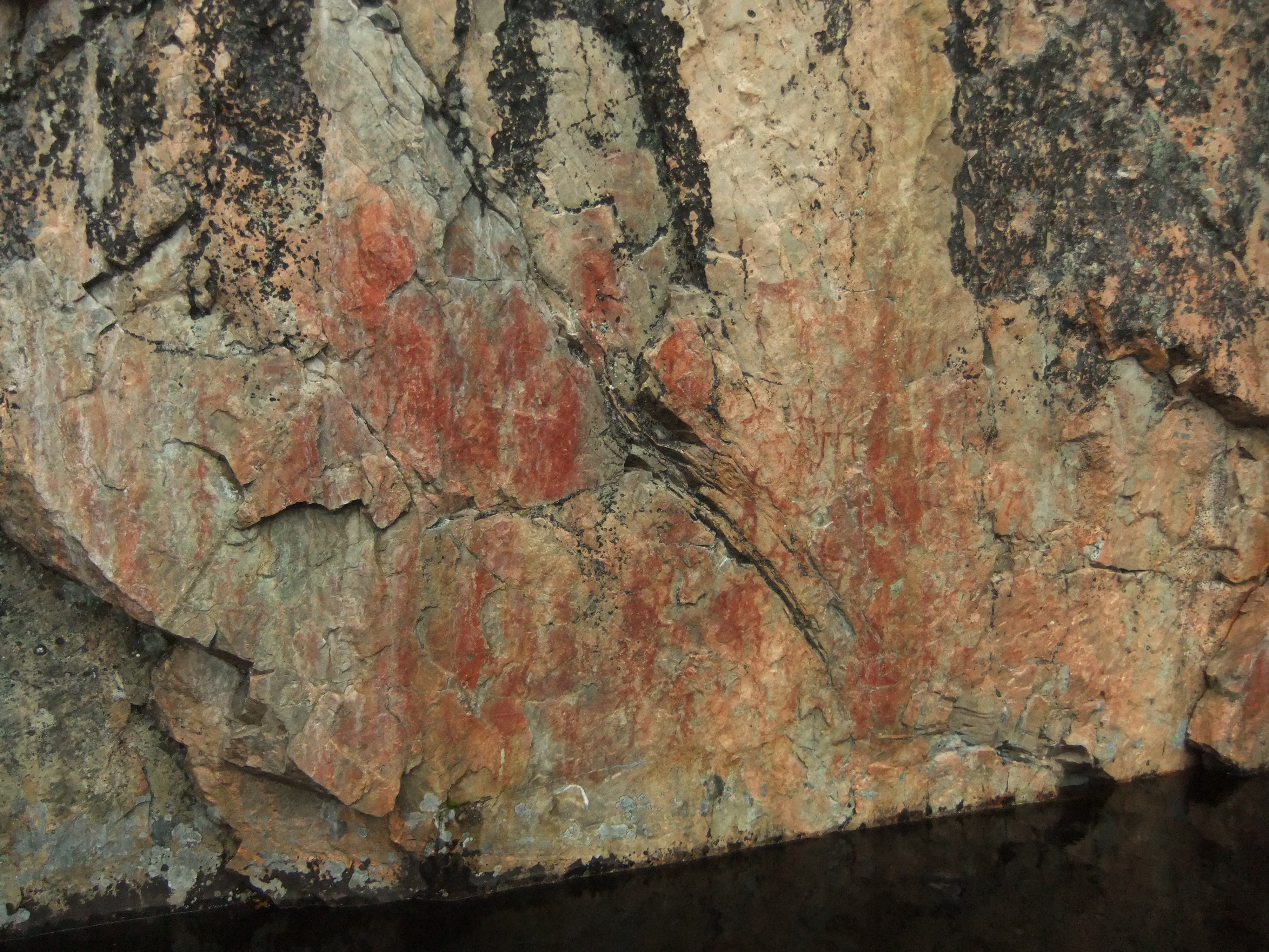 Stone Age rock painting site Värikallio at Suomussalmi, Finland.